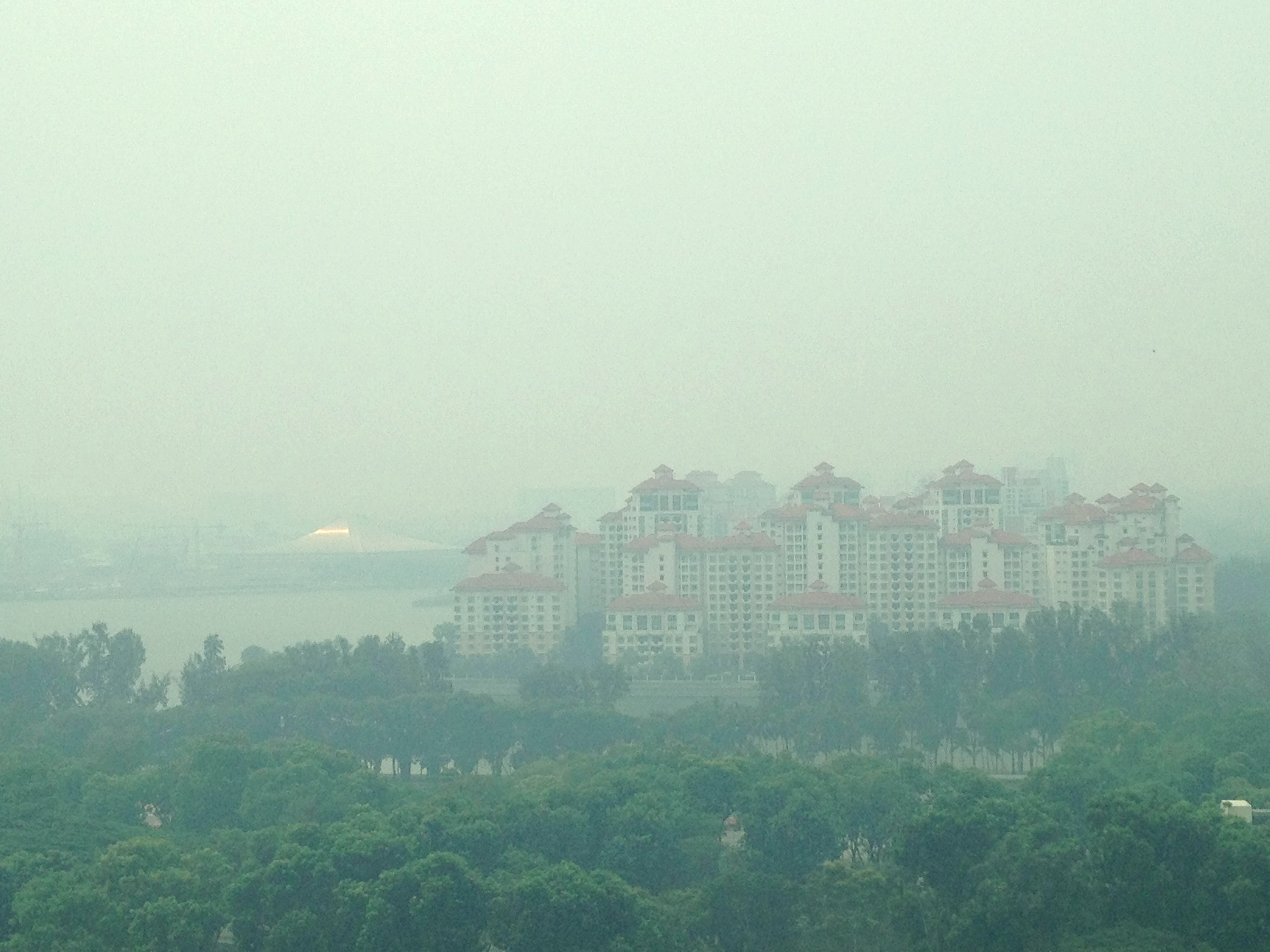 Costa Rhu condominium in Tanjong Rhu, Singapore, during the 2013 Southeast Asian haze.